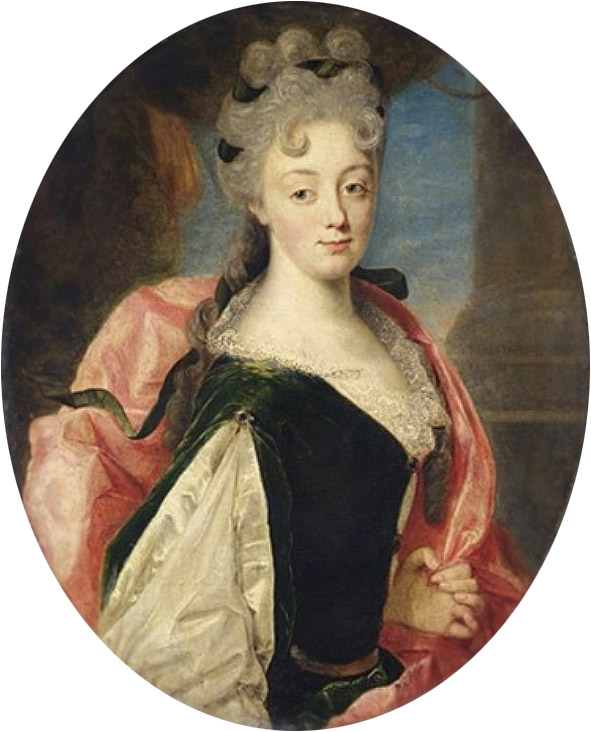 Portrait of Marie Adélaïde of Savoy (1685-1712), Duchess of Burgundy